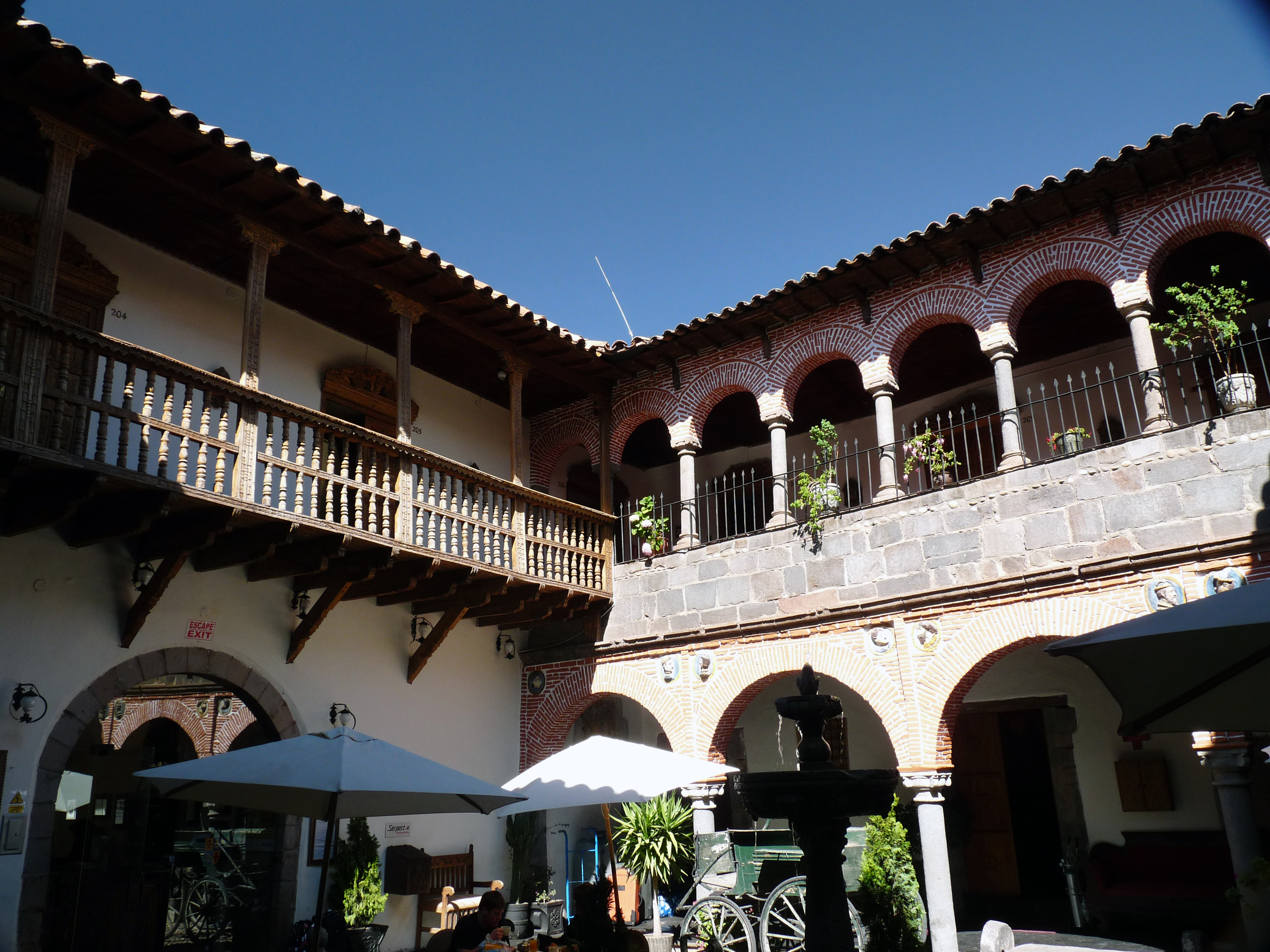 Beautiful building found in Cusco, Peru.